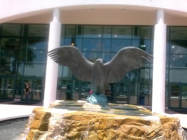 Eagle statue in front of Alico Arena at Florida Gulf Coast University.